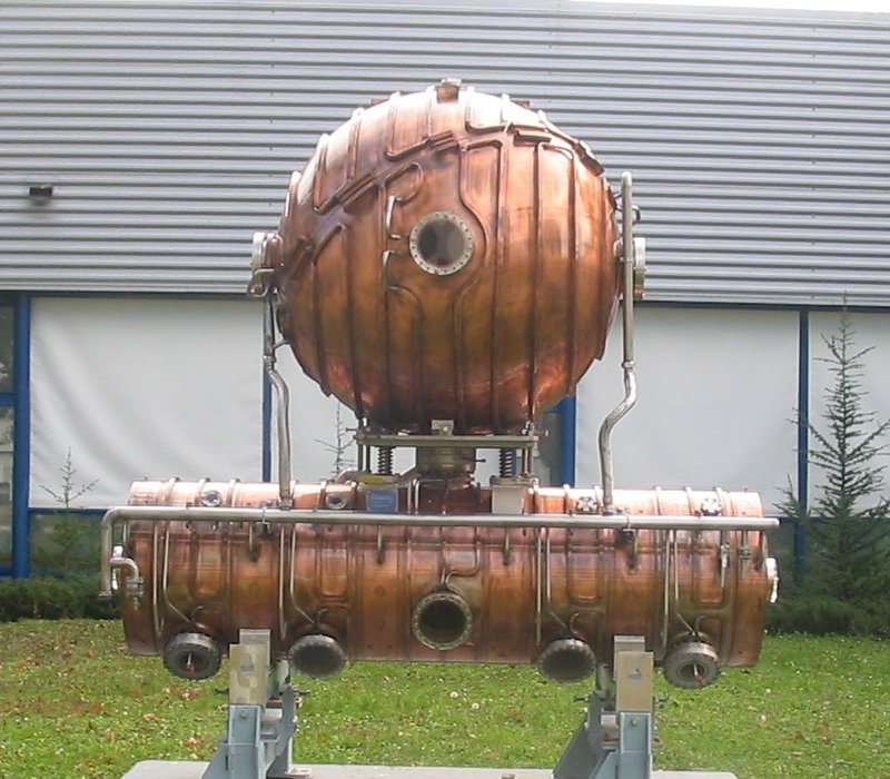 A LEP RF cavity now on display at the Microcosm exhibit at CERN.